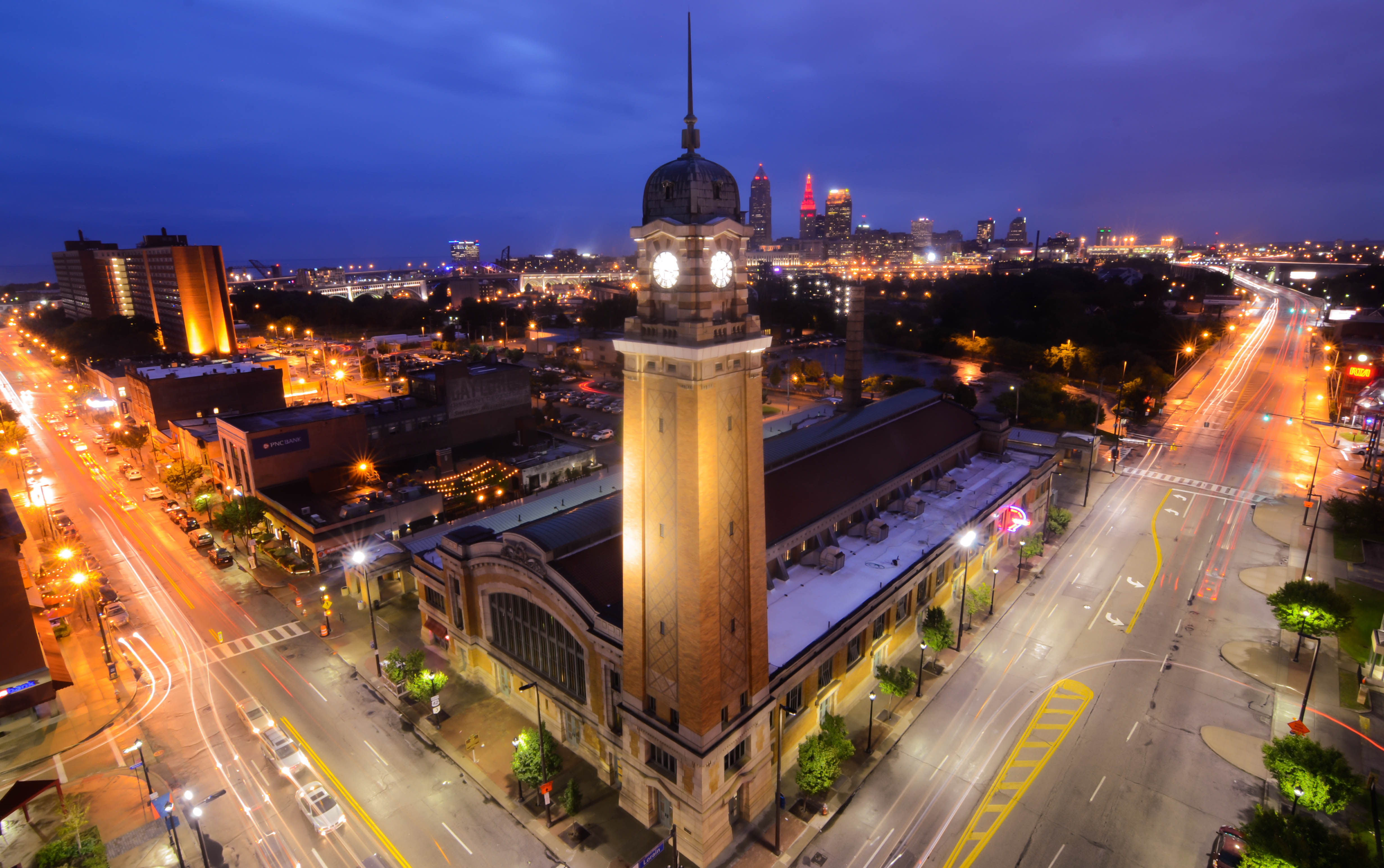 Cleveland's West Side Market at night